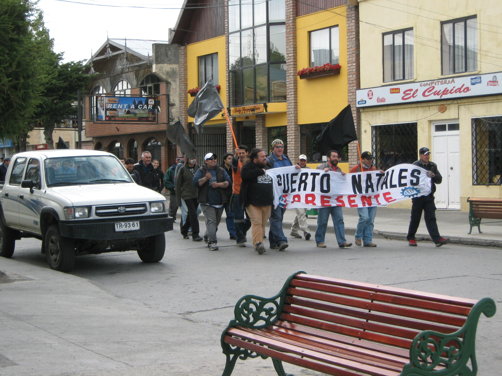 Protest in support of Puerto Natales, to protest the rising price of gas.